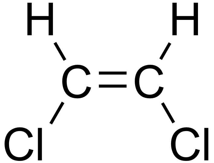 Chemical structure of an isomer of en:1,2-dichloroethene created with ChemDraw.